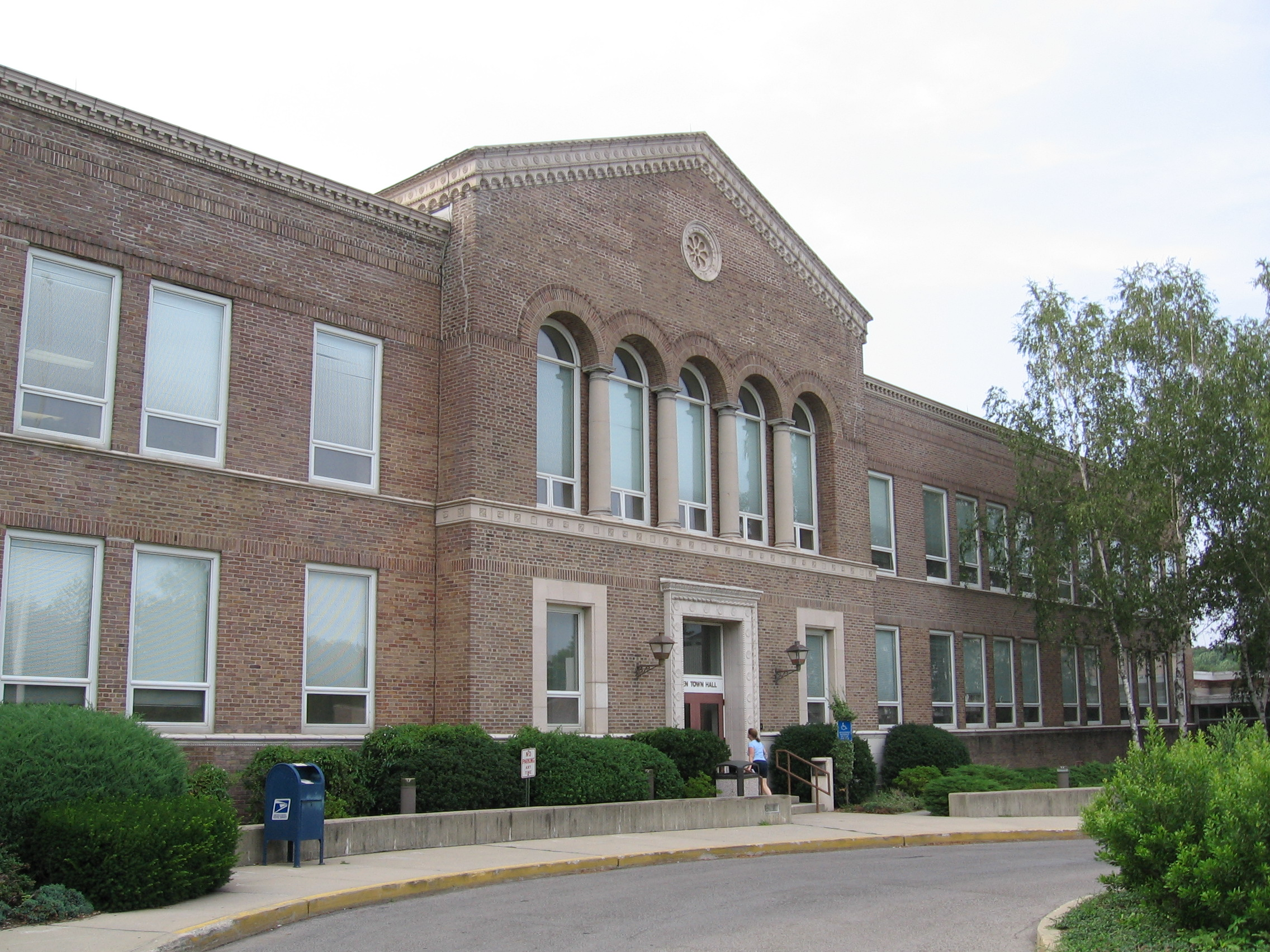 Town Hall of Darien, Connecticut, the former Mather Junior High School, and before that the building housed Darien High School